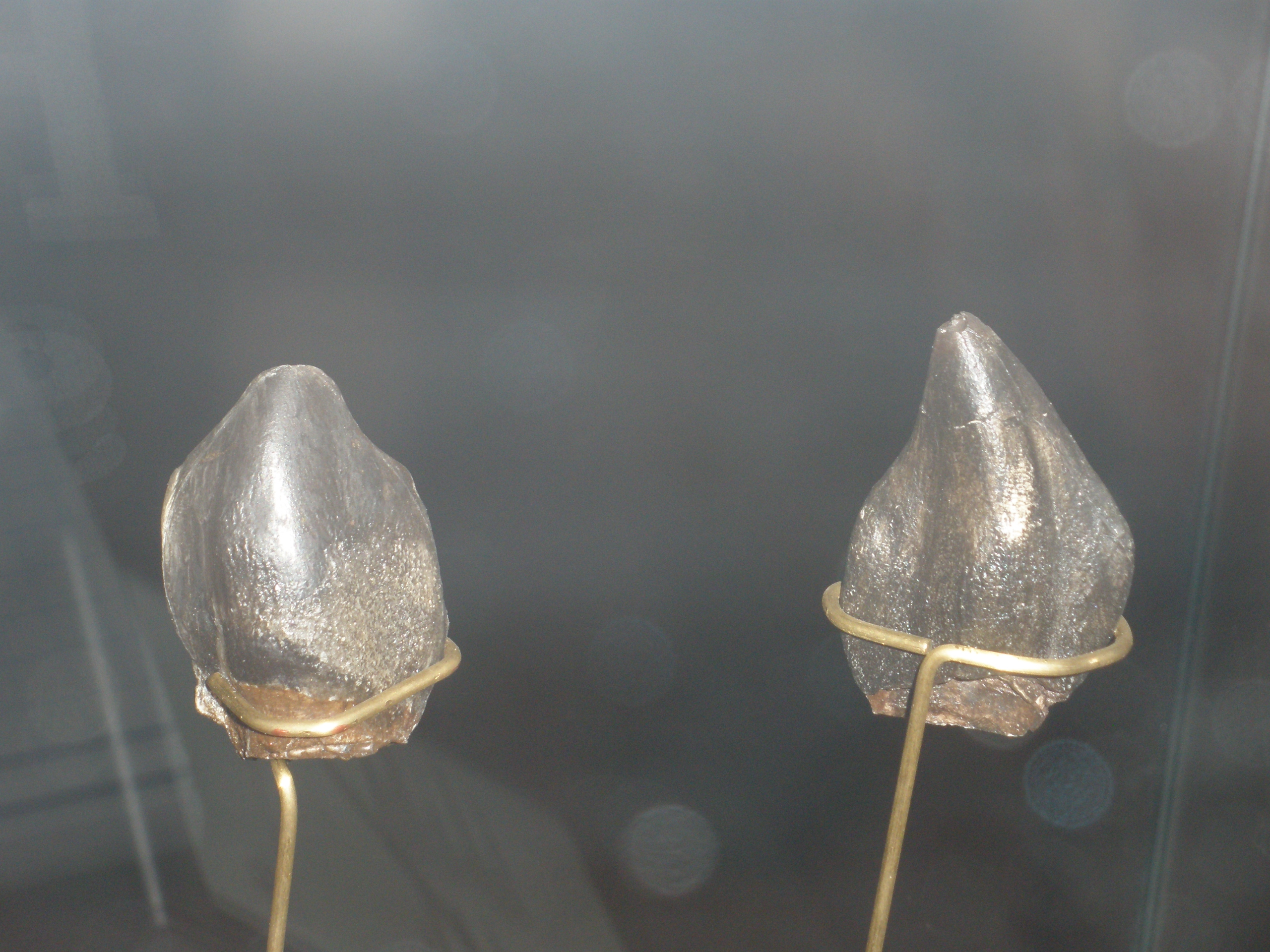 tooth fossil of Neosodon, an extinct sauropod